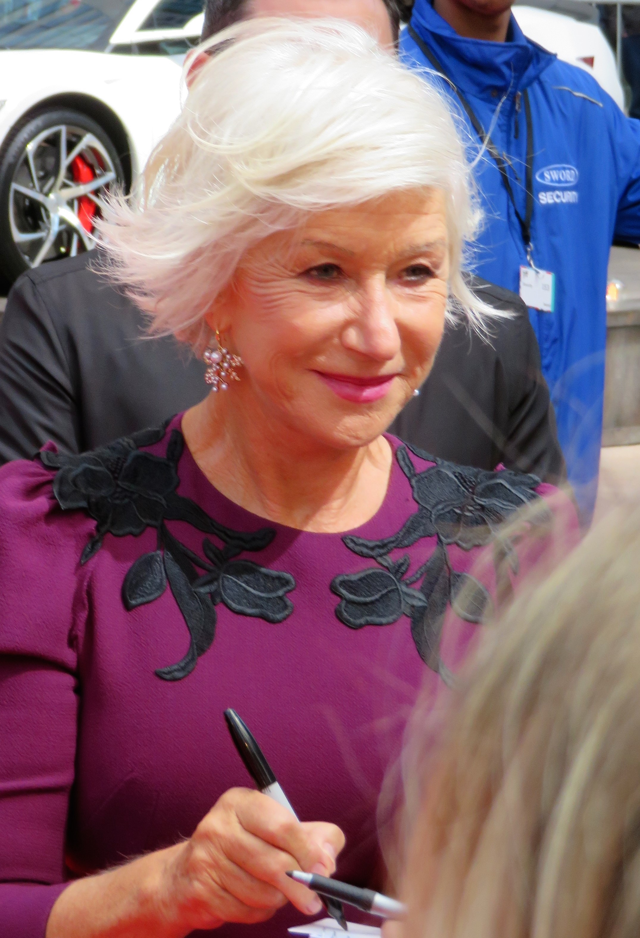 Helen Mirren at the premiere of The Leisure Seeker, 2017 Toronto Film Festival